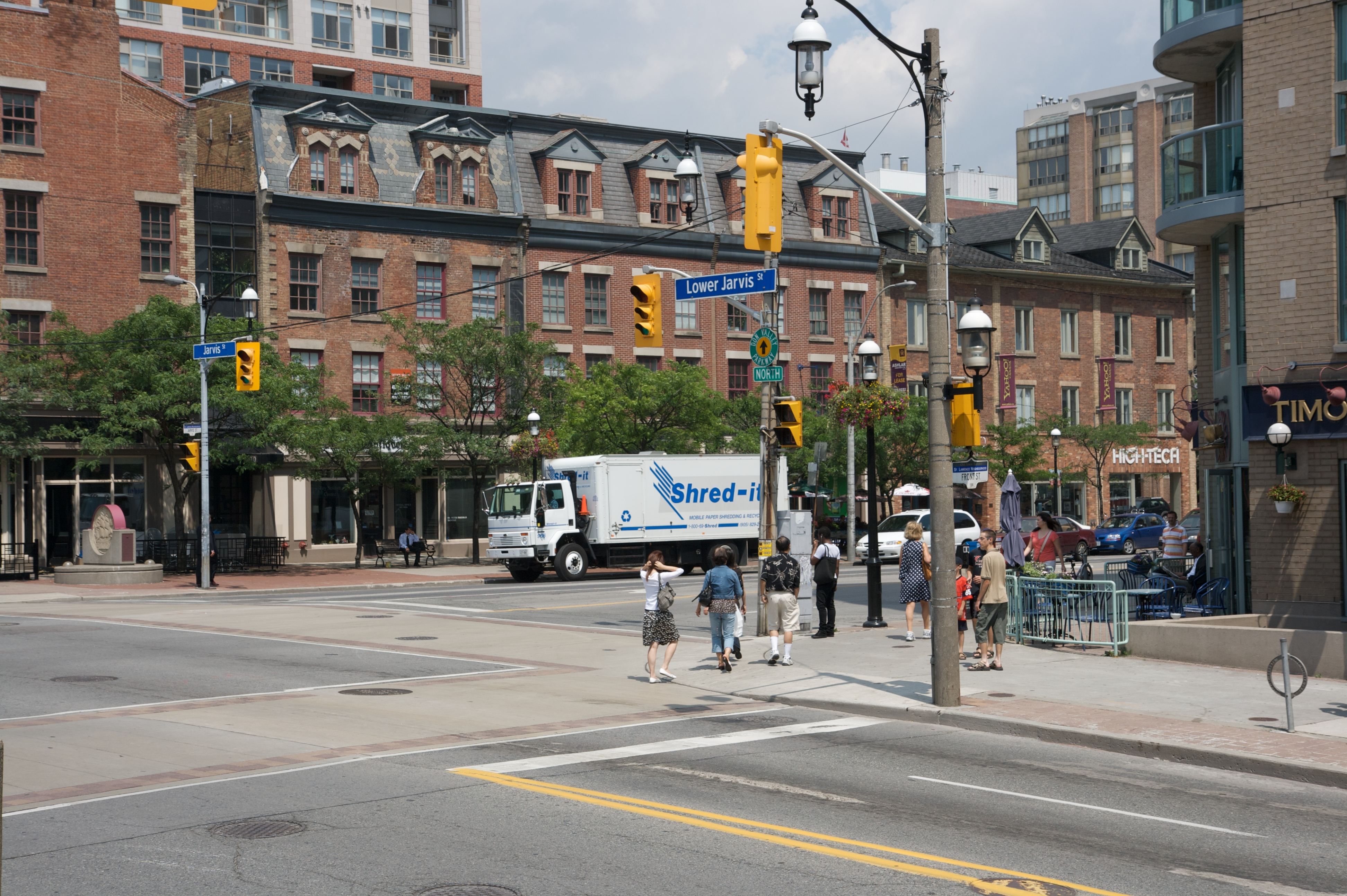 The intersection of Front Street East and Lower Jarvis Street in Toronto's St. Lawrence neighbourhood.